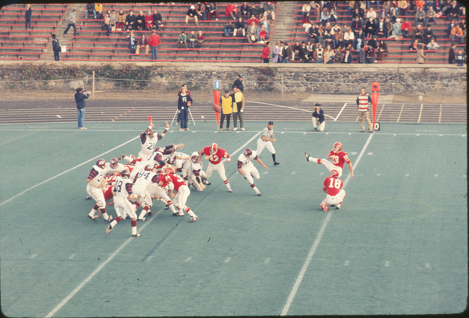 A scene from the University of Pennsylvania playing Cornell University in football at Cornell's Schoellkopf Field on October 14, 1972. Here Cornell is kicking an extra point after scoring a touchdown.